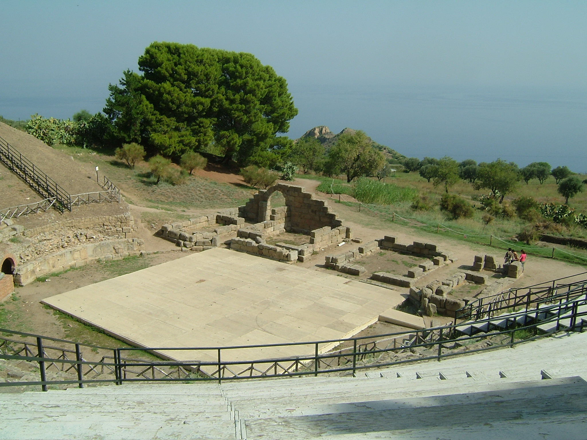 Tindari greek Theatre